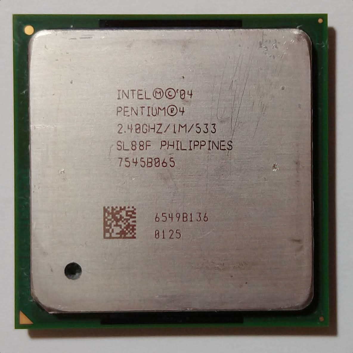 Pentium 4 "Prescott" 2.40 GHz 1 MB Cache, 533 FSB circa 2004